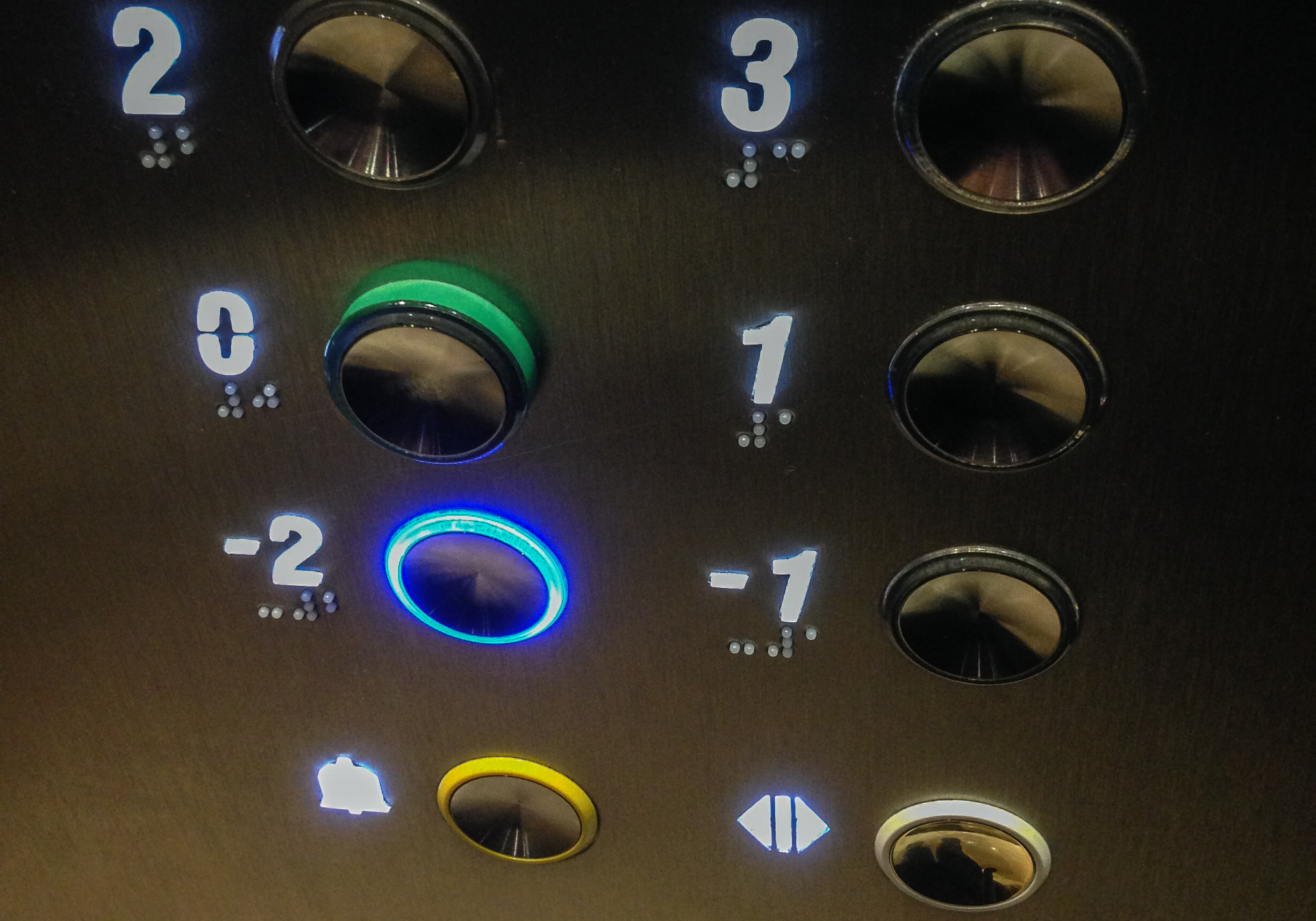 Elevator buttons with 0 and negative numbers in Dublin, Ireland (Radisson Blu Royal Hotel Dublin)